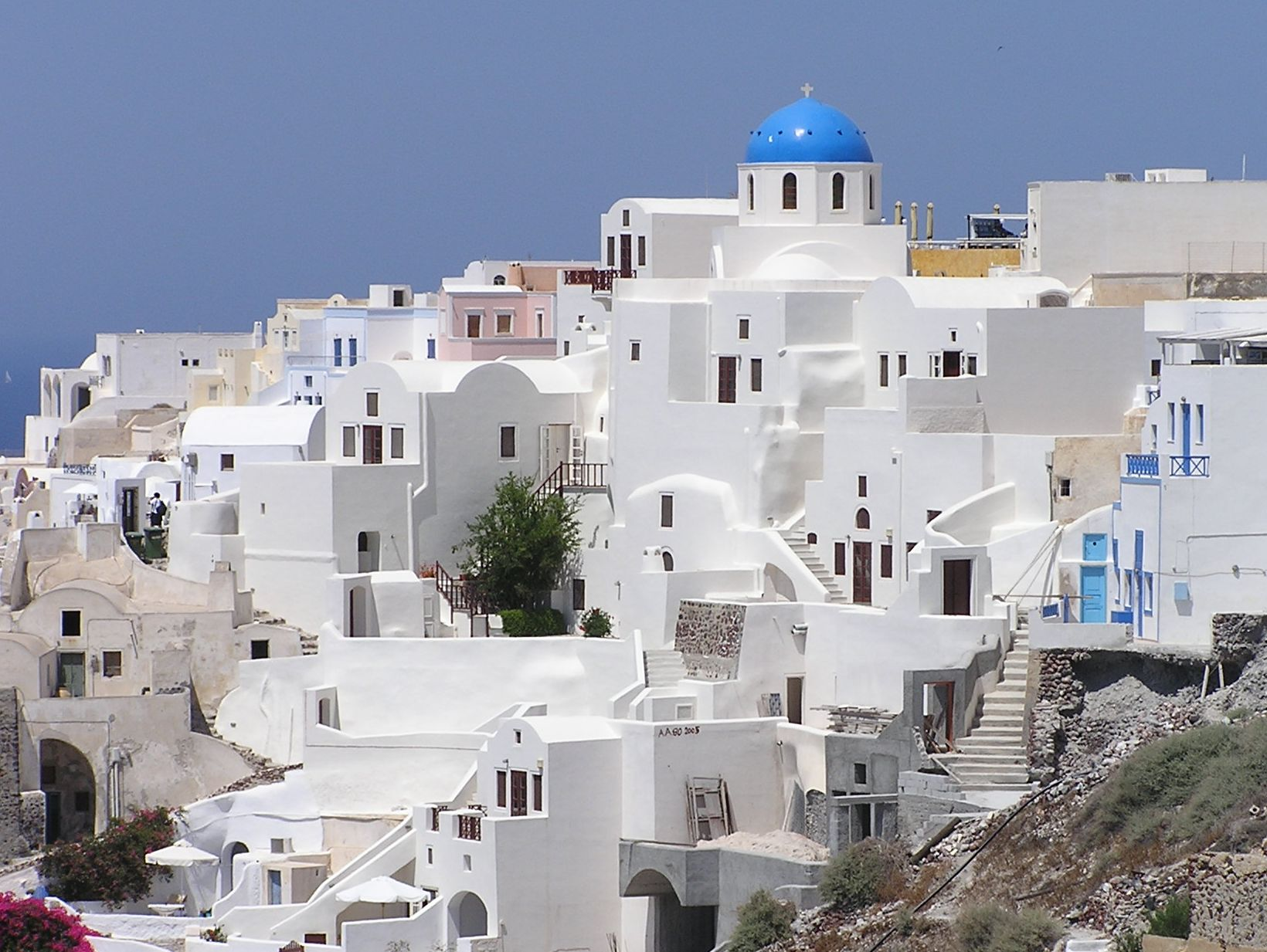 Cliff homes of Oia, Santorini, Greece